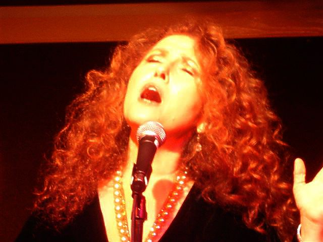 Melissa Manchester in concert. Annapolis, Maryland, United States.